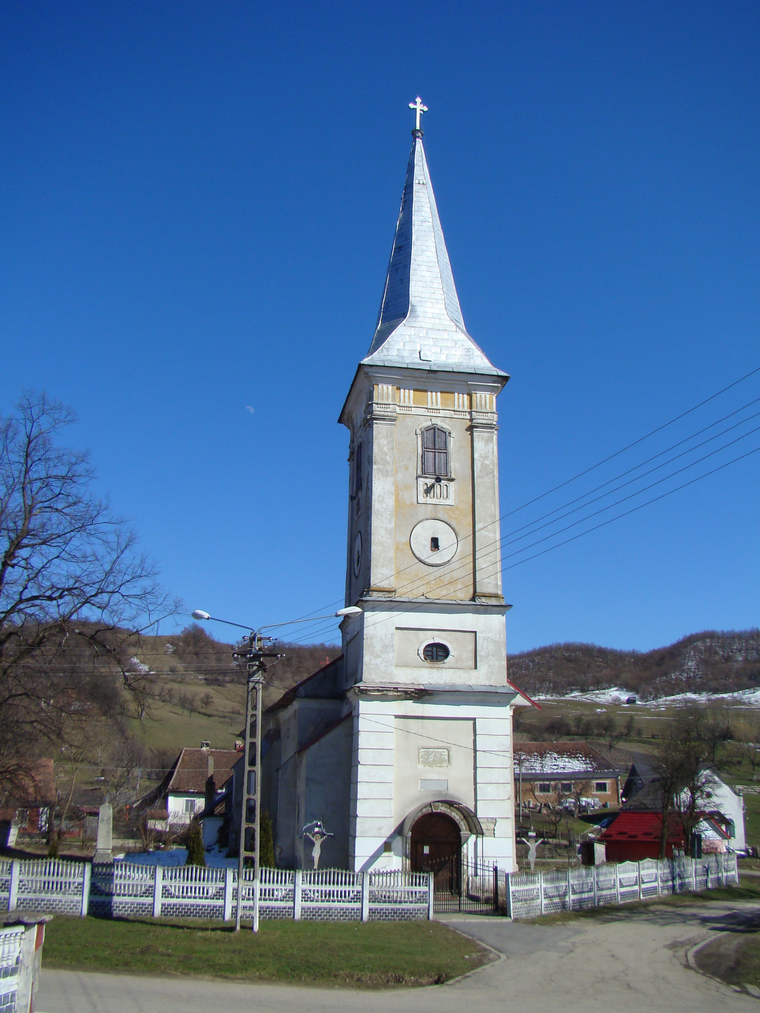 Lutheran church in Slătinița, Bistrița-Năsăud County, Romania